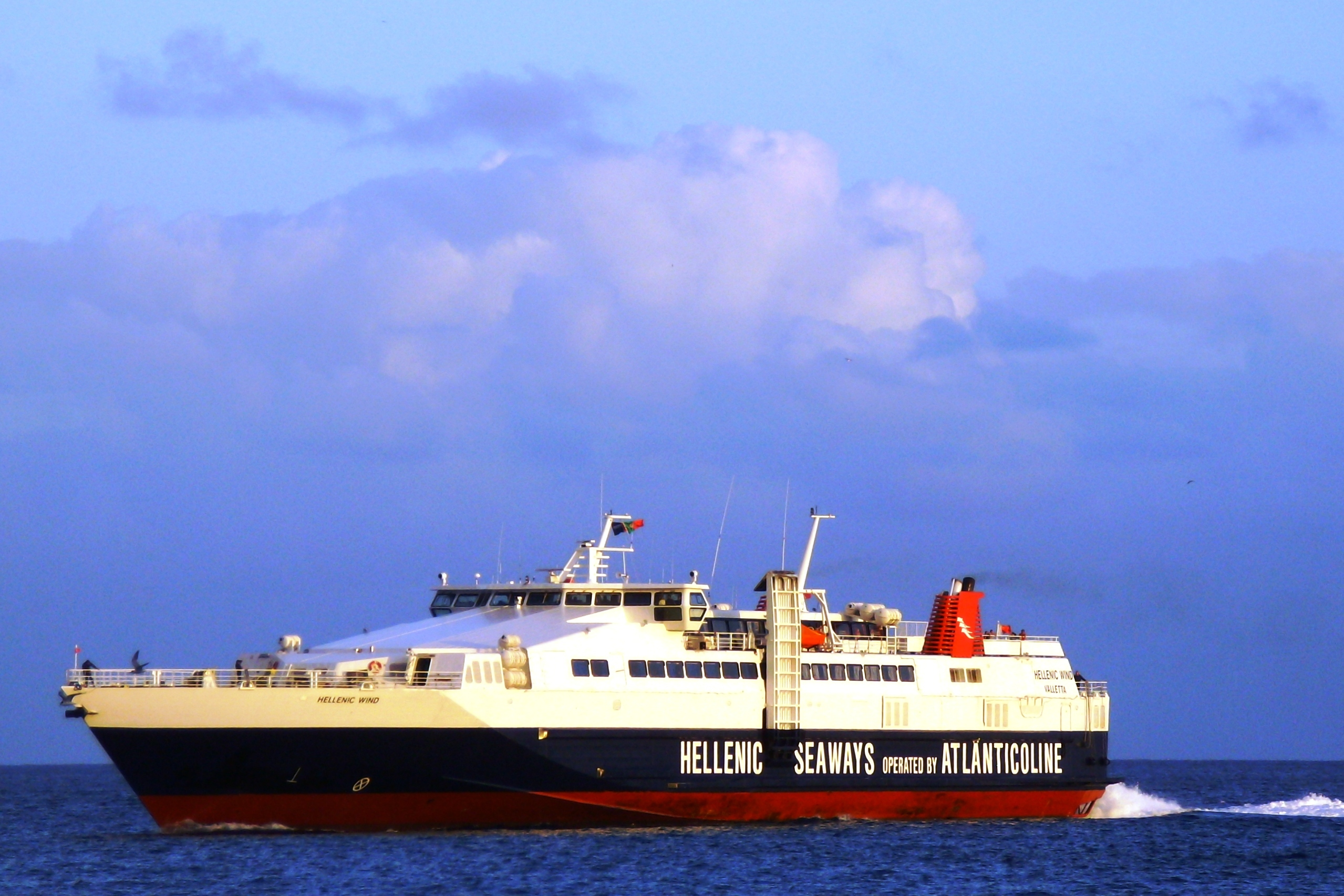 HSC Hellenic Wind approaching Vila do Porto harbour, isle of Santa Maria, Azores.